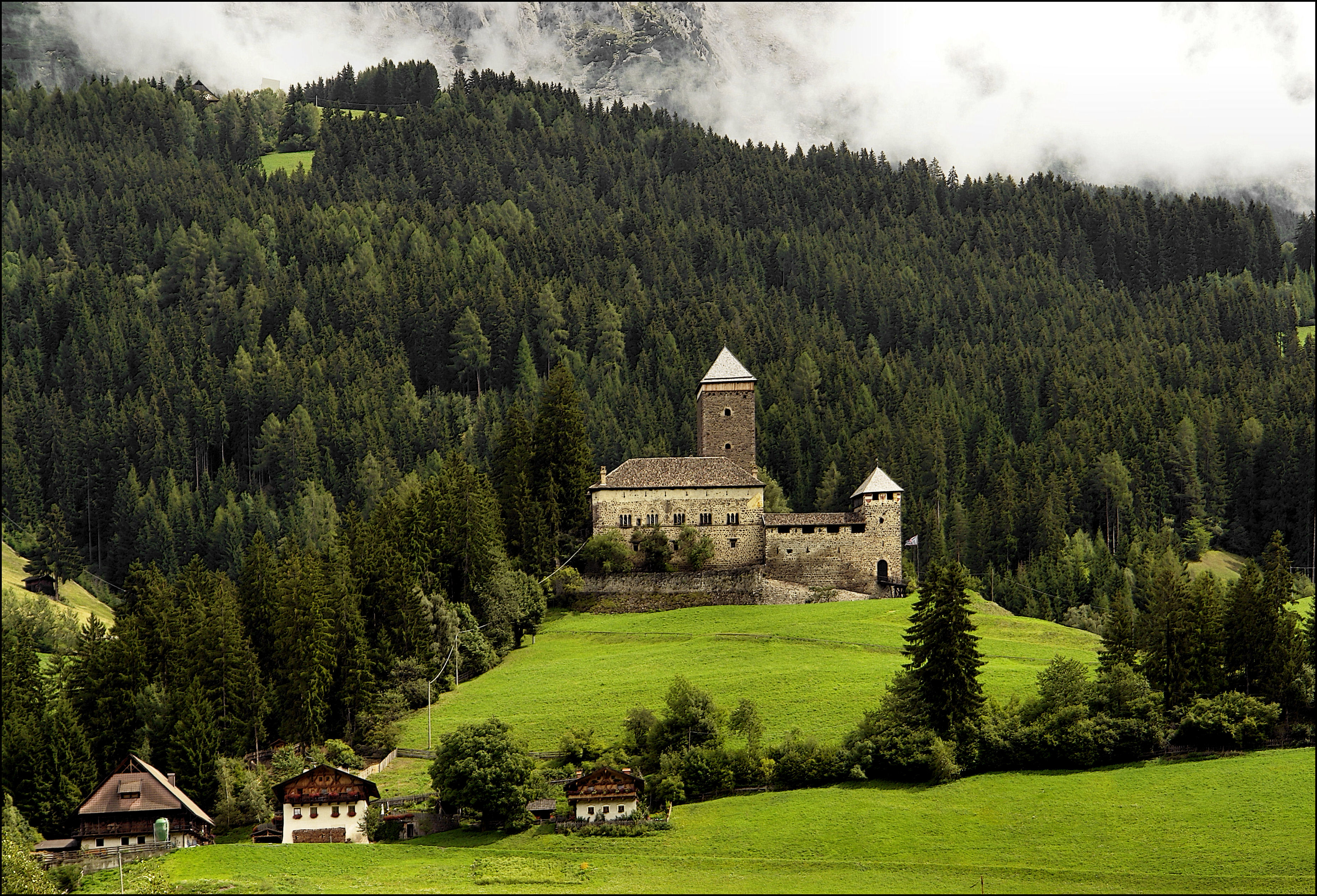 View on Schloss Reinegg